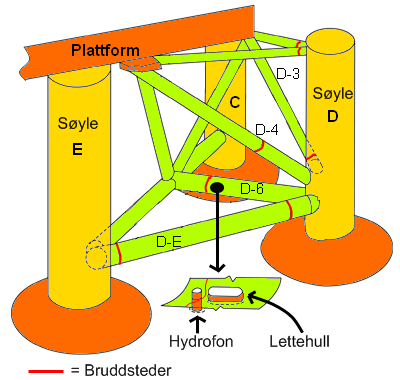 Columns of the oil rig Alexander L. Kielland - drawing shows fractures by fatigue and stormwaves.